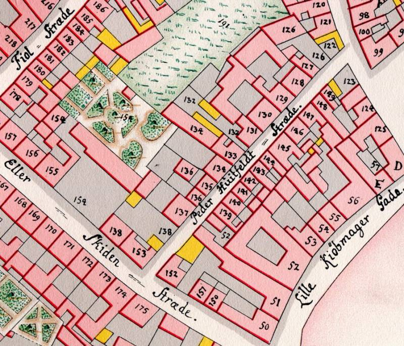 Peder Hvitfeldts Stræde seen on a detail from Gedde's map of Copenhagen, Denmark